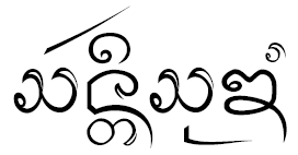 Lanna script – Santi Suk is a district (Amphoe) in the central part of Nan Province, northern Thailand.